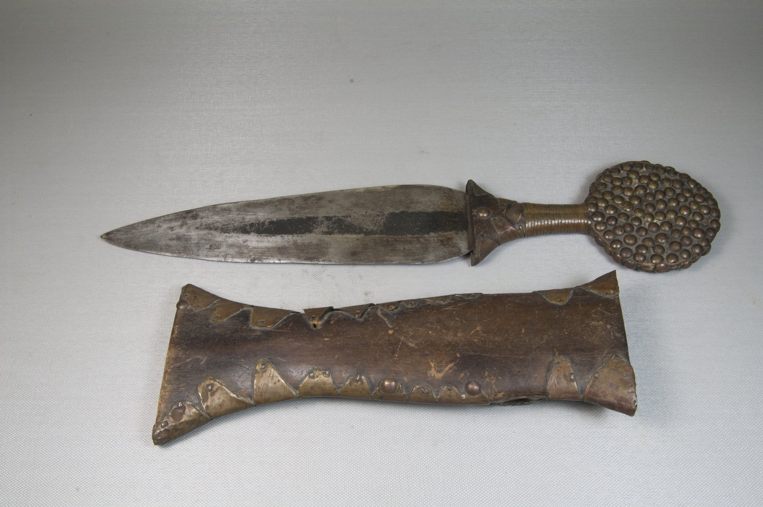 assembled